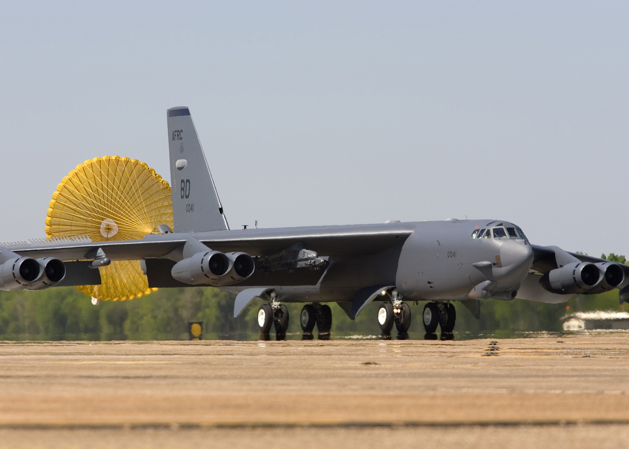 B-52 Stratofortress deploying its drag chute while landing at Barksdale AFB in Bossier City, Louisiana, United States.